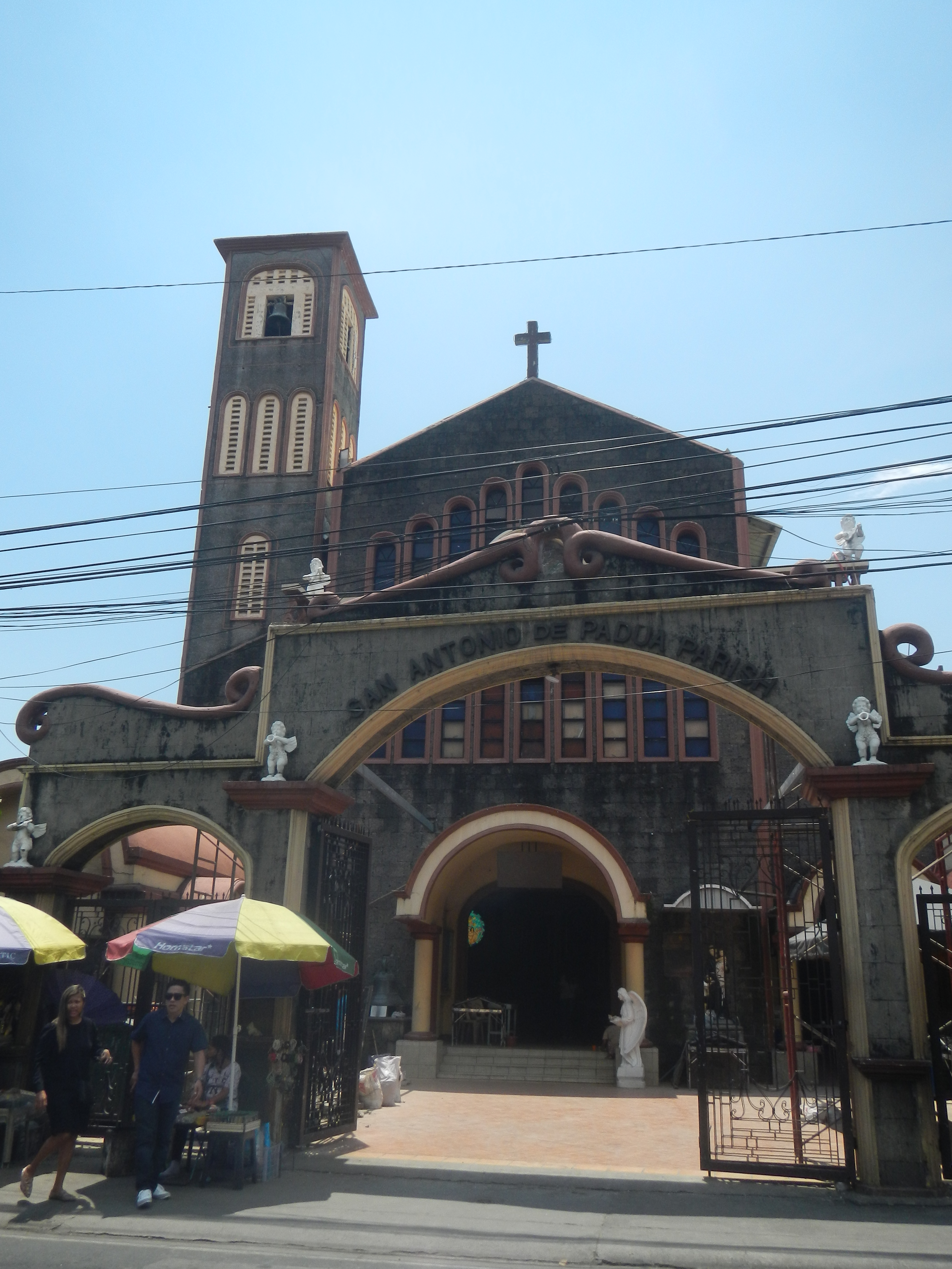 Robinsons Town Mall - Los Baños San Antonio de Padua Parish Chuch of Los Baños Batong Malake, Los Baños, Laguna along Los Baños National Higway interconnecting with Calamba National Higway in List of barangays in Laguna (province) Barangay Batong Malake, Los Baños, Laguna 14.1527, 121.2282 Los Baños, Laguna Calamba–Pagsanjan Road from Manila East Road Philippine highway network (Note: Judge Florentino Floro, the owner, to repeat, Donor Florentino Floro of all these photos hereby donate gratuitously, freely and unconditionally Judge Floro all these photos to and for Wikimedia Commons, exclusively, for public use of the public domain, and again without any condition whatsoever).